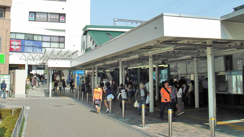 North Exit of Tsurukawa Station, Odakyu Line